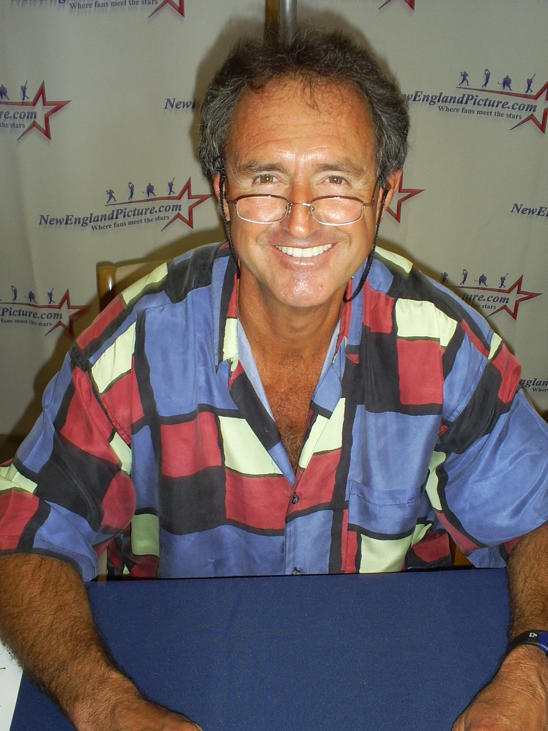 Photo by Craig Michaud.This was taken at an autograph signing in Manchester NH